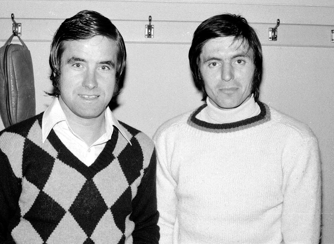 Bernd Patzke and Motie Lubetzky of Hellenic FC Cape Town 1972